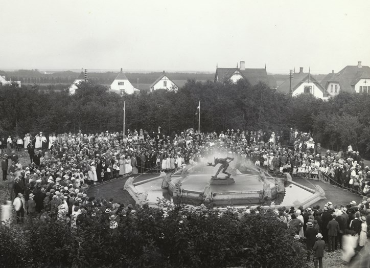 Inauguration of the Troll Fountain on 13 July 1923 in Vejen, Denmark